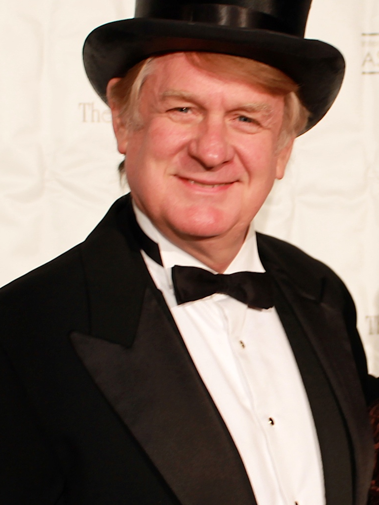 Bill Farmer at the 41st Annual Annie Awards.